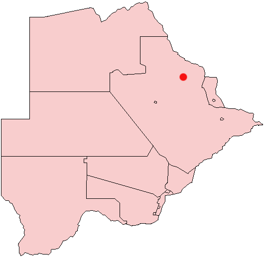 Sowa, Botswana Location Map; created with the GIMP. Made by User:Acntx.